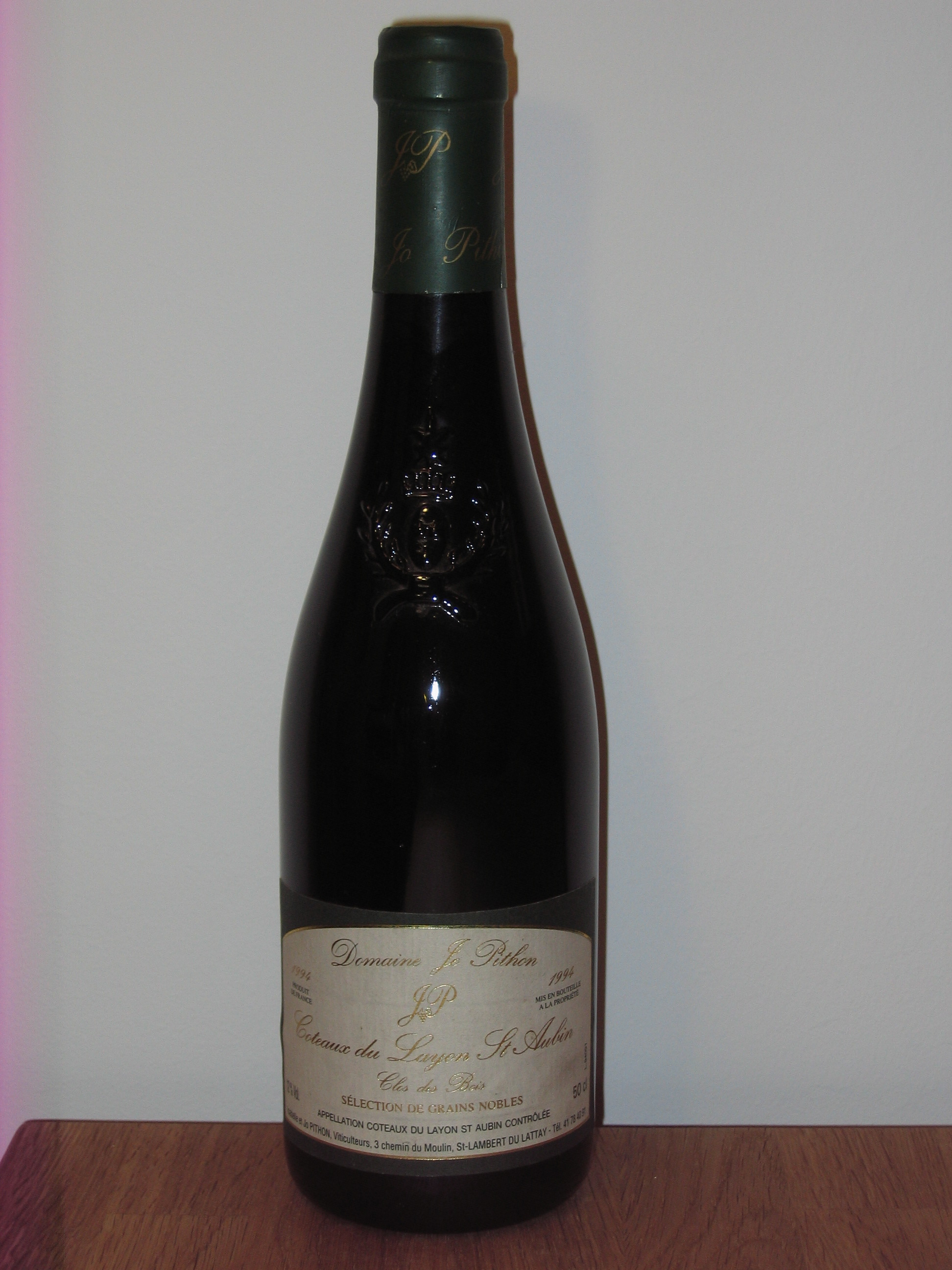 A bottle of wine from Coteaux du Layon, a sweet wine appellation in the Loire valley: Clos des Bois Sélection de Grains Nobles 1994 by Jo Pithon